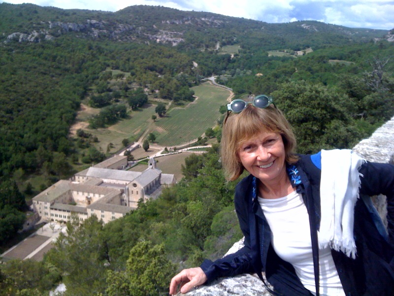 Photo of Mireille in Provence